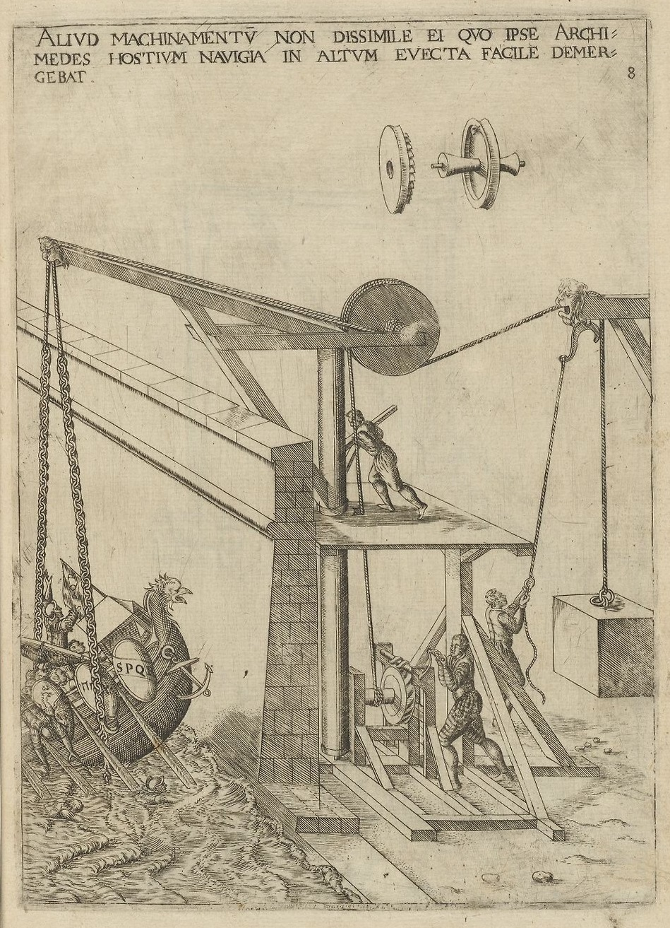 Illustration from Instruments mathematiques mechaniques, 1584, by Jean Errard (1554-1610). Plate 8. Typ 515.84.368, Houghton Library, Harvard University